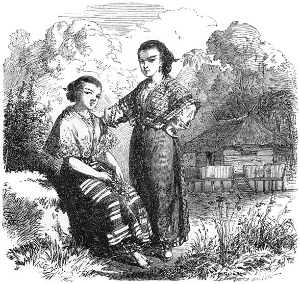 Young Filipinas of Marigondon, early 1800s. Original caption: Jeunes indiennes de Marigondon. From Aventures d'un Gentilhomme Breton aux iles Philippines by Paul de la Gironiere, published in 1855.